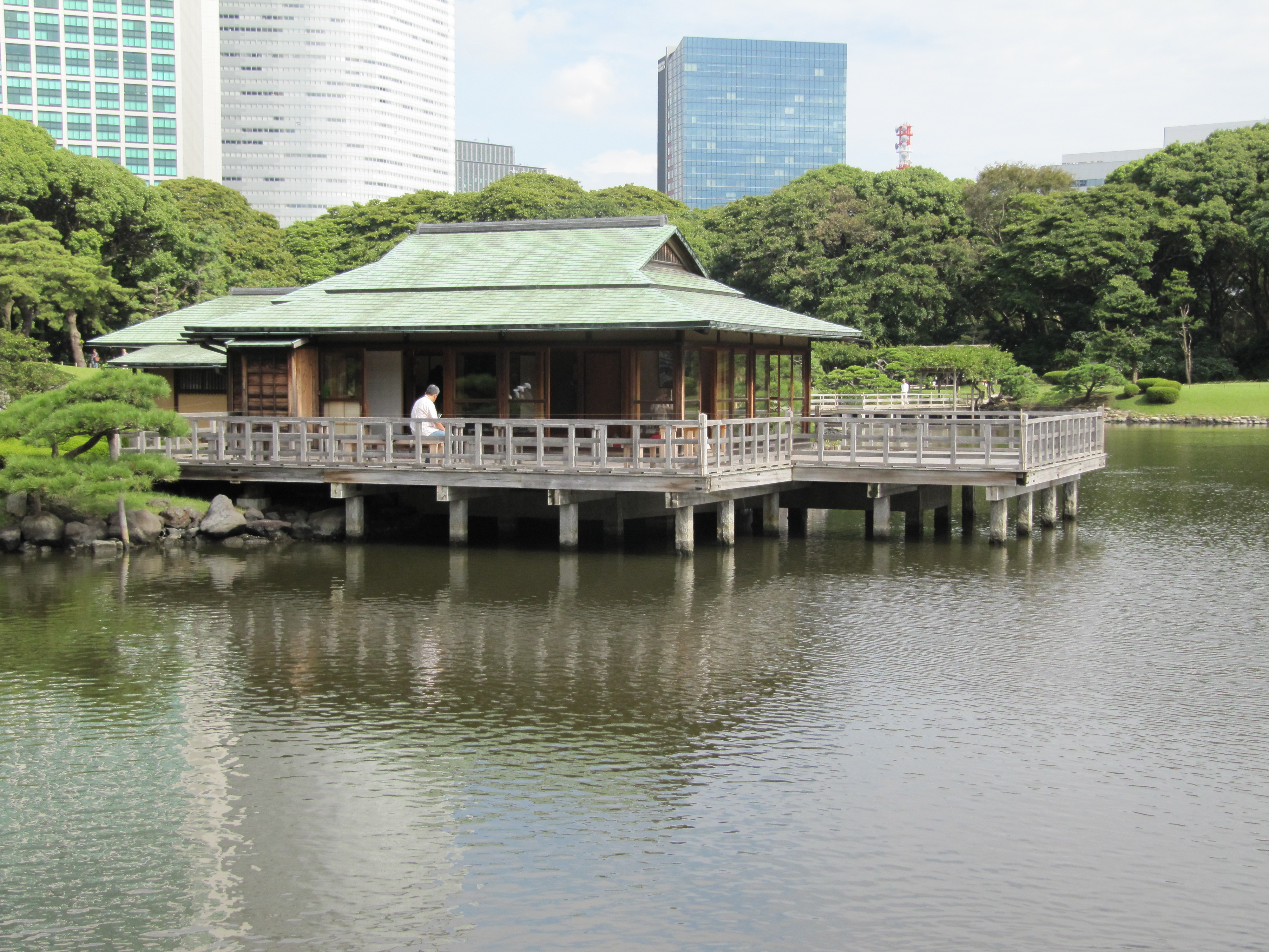 Nakajima-no-ochaya a teahouse at Hama-Rikyu garden, Tokyo, Japan. The teahouse was built 1707 and renovated 1983.